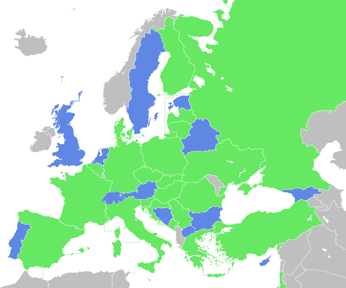 Map of countries which have been represented in the Basketball Champions League regular season or qualifying rounds.